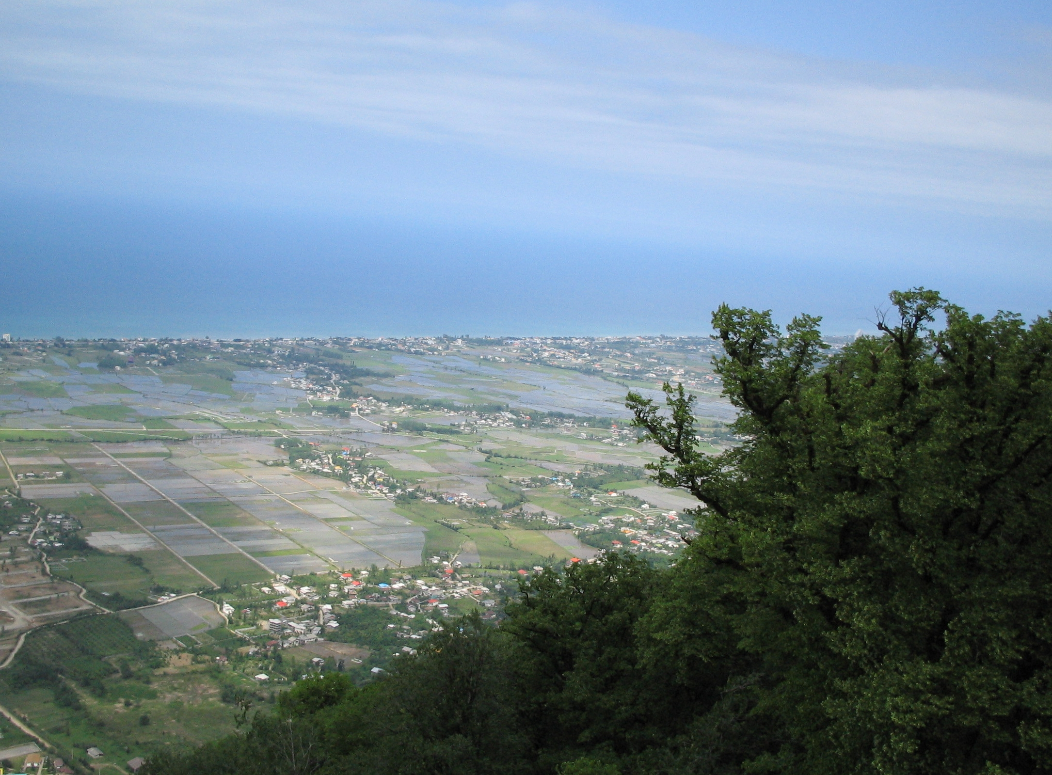 Caspian sea seen from Namak Abrood, Iran